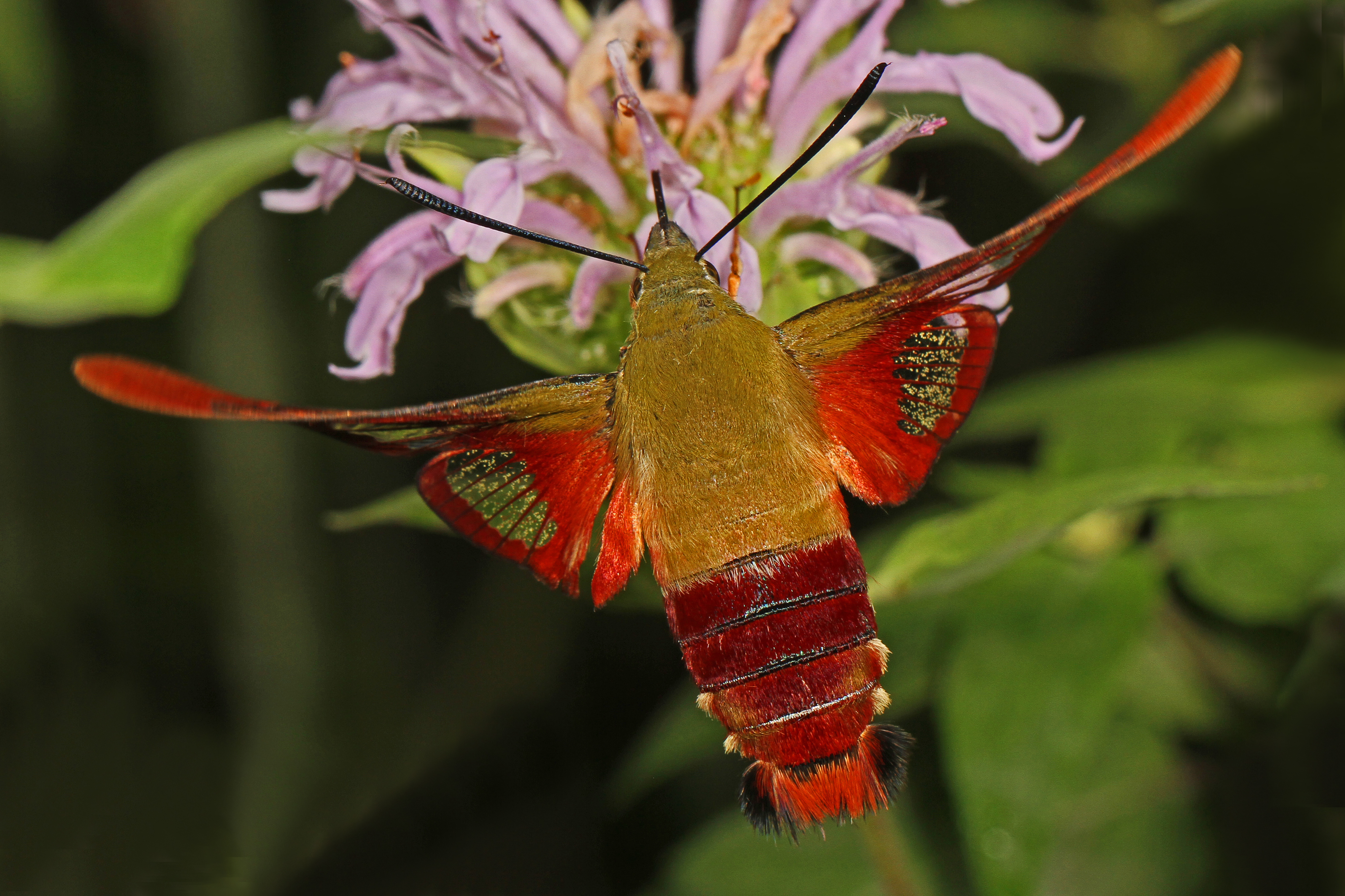 Hummingbird Clearwing Moth - Hemaris thysbe, Merrimac Farm Wildlife Management Area, Aden, Virginia. Like their namesake, these never stay still and are therefore a challenge to photograph